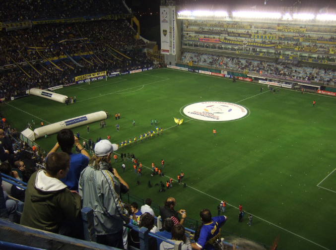 The Copa Libertadores logo being shown on the centre of the pitch.